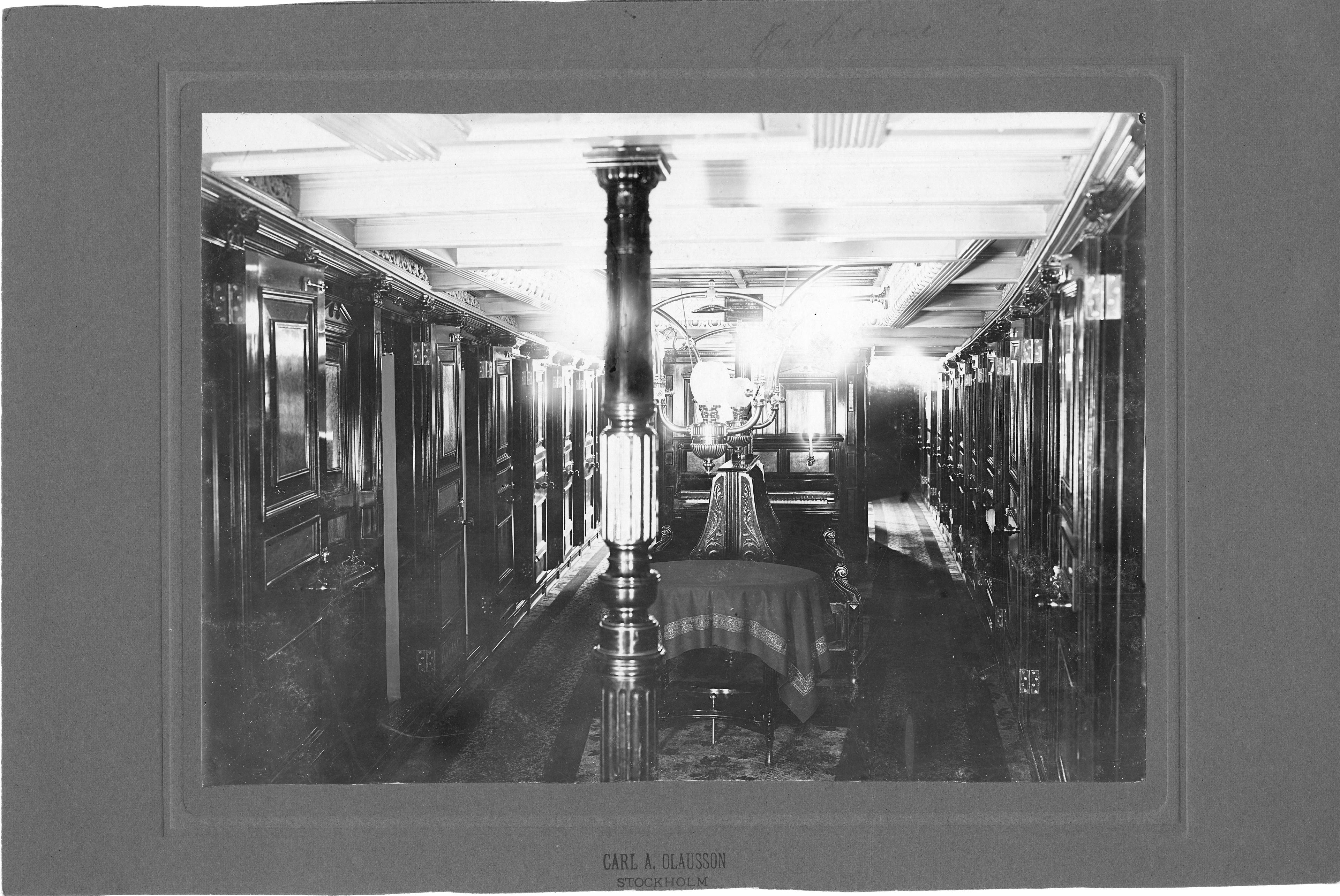 Interior omboard s/s Oihonna, built in 1898.